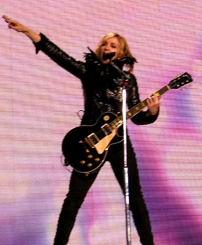 Madonna featuring Ray of Light in Miammi, Confessions Tour